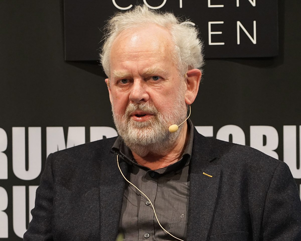 Jens Smærup Sørensen - Danish writer at the Copenhagen Book Fair "BogForum 2015", Copenhagen, Denmark